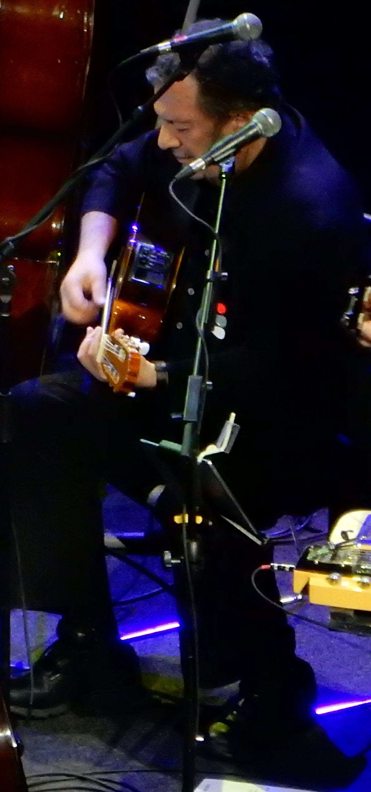 Jay Berliner performing with Van Morrison in Las Vegas on 1/26/2019